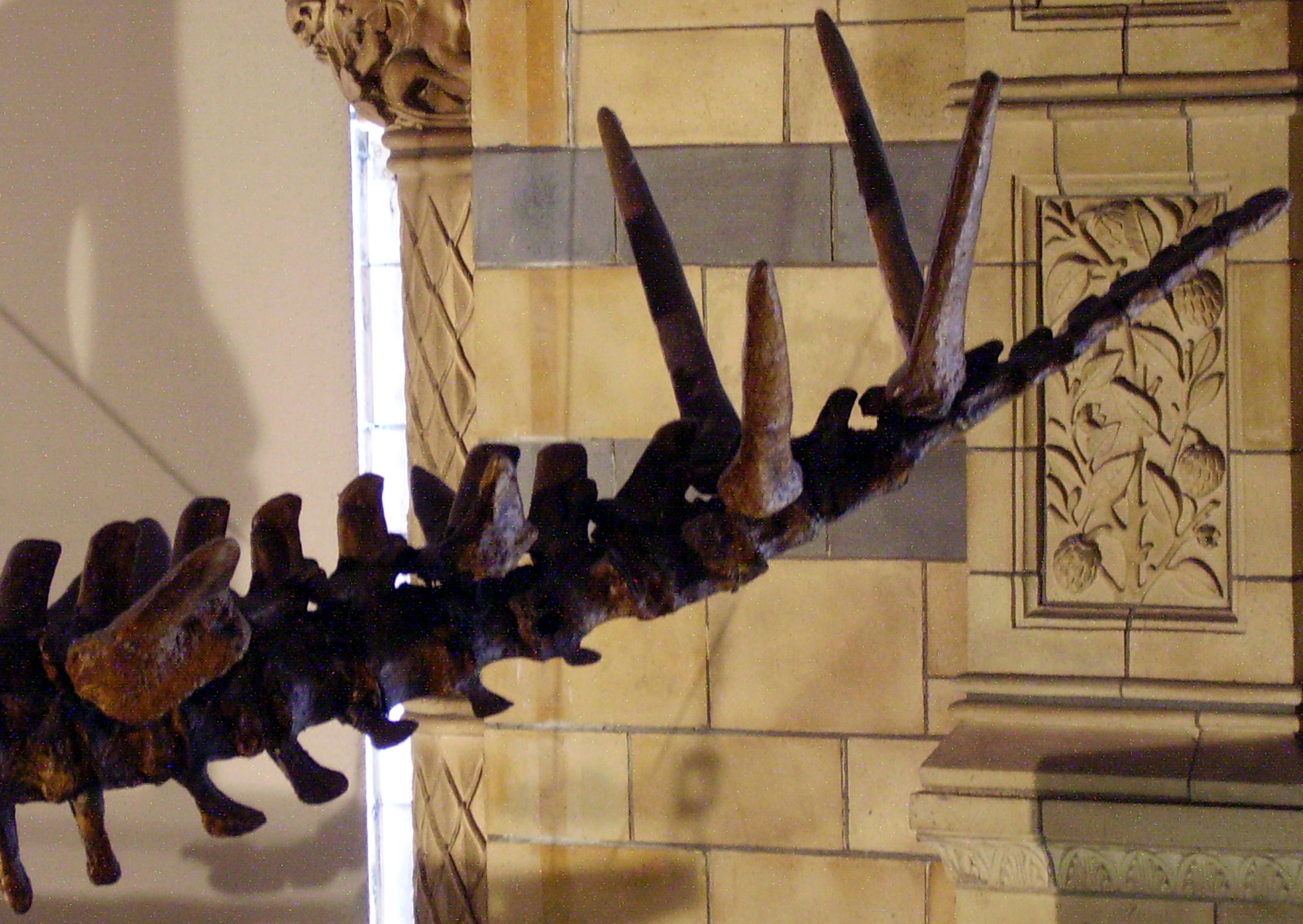 The Tuojiangosaurus tail (Natural History Museum).